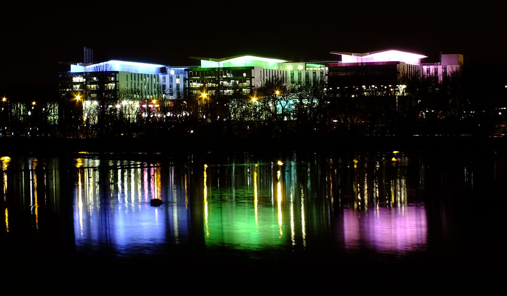 King's Mill Hospital with nearby King's Mill Reservoir which provides Surface Solar Energy heat recovery and cooling as required